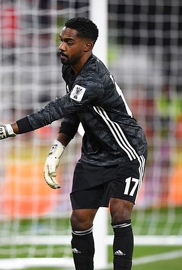 Qatar-United Arab Emirates 2019 AFC Asian Cup semi-final match